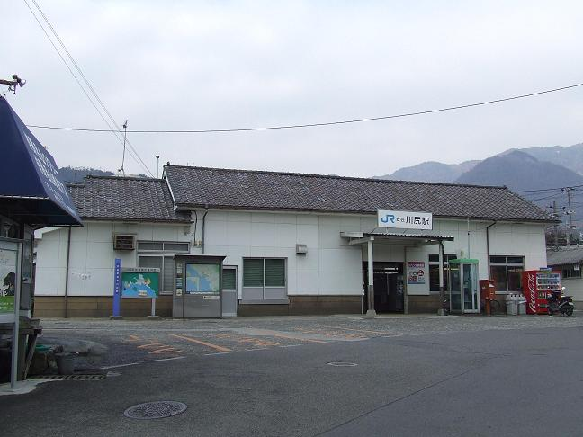 Aki-Kawajiri Station on Kure Line